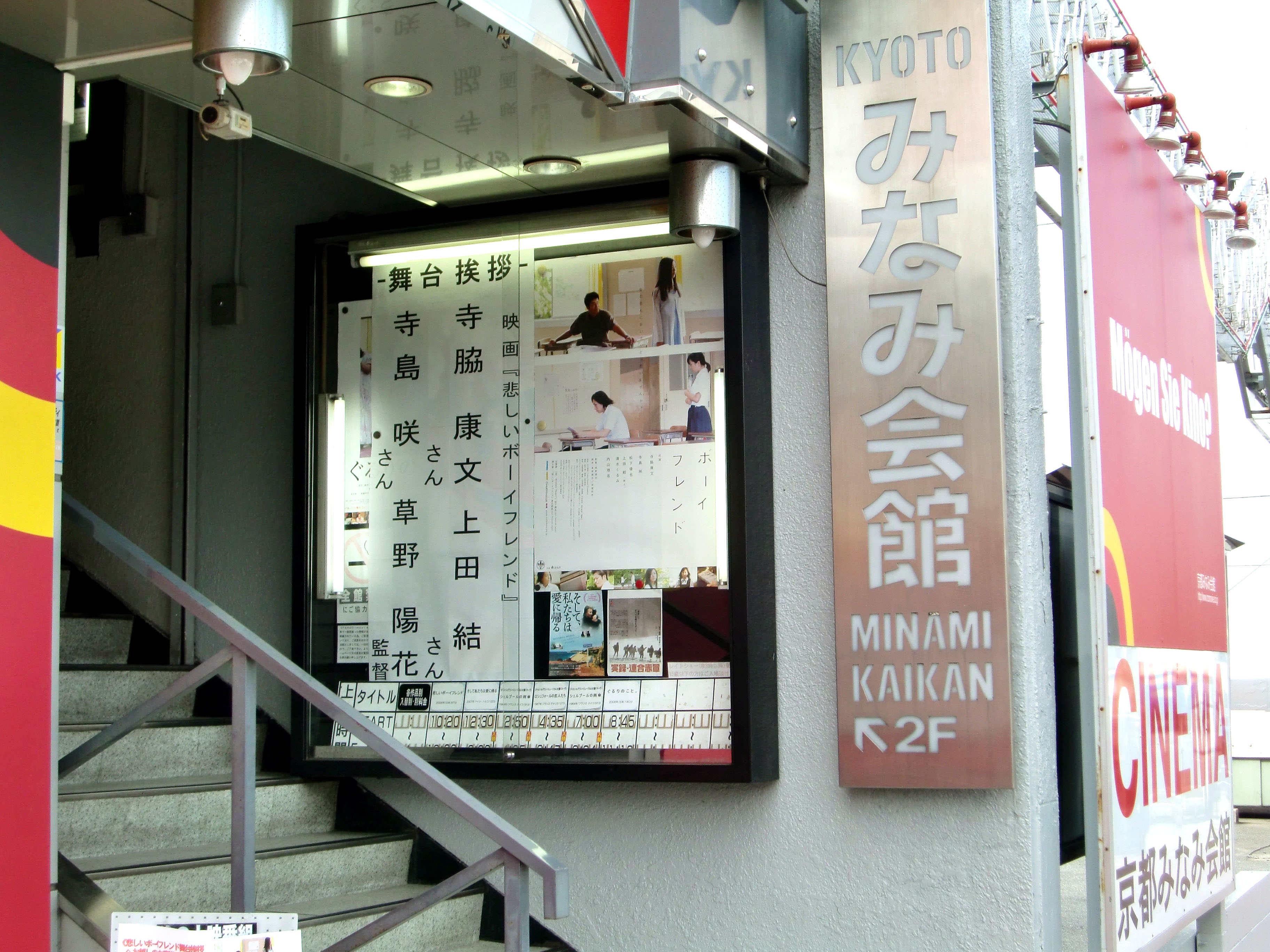 Kyoto Minami Kaikan,78 Nishikujo Higashi Hieijocho Minami-ku Kyoto-City JAPAN.